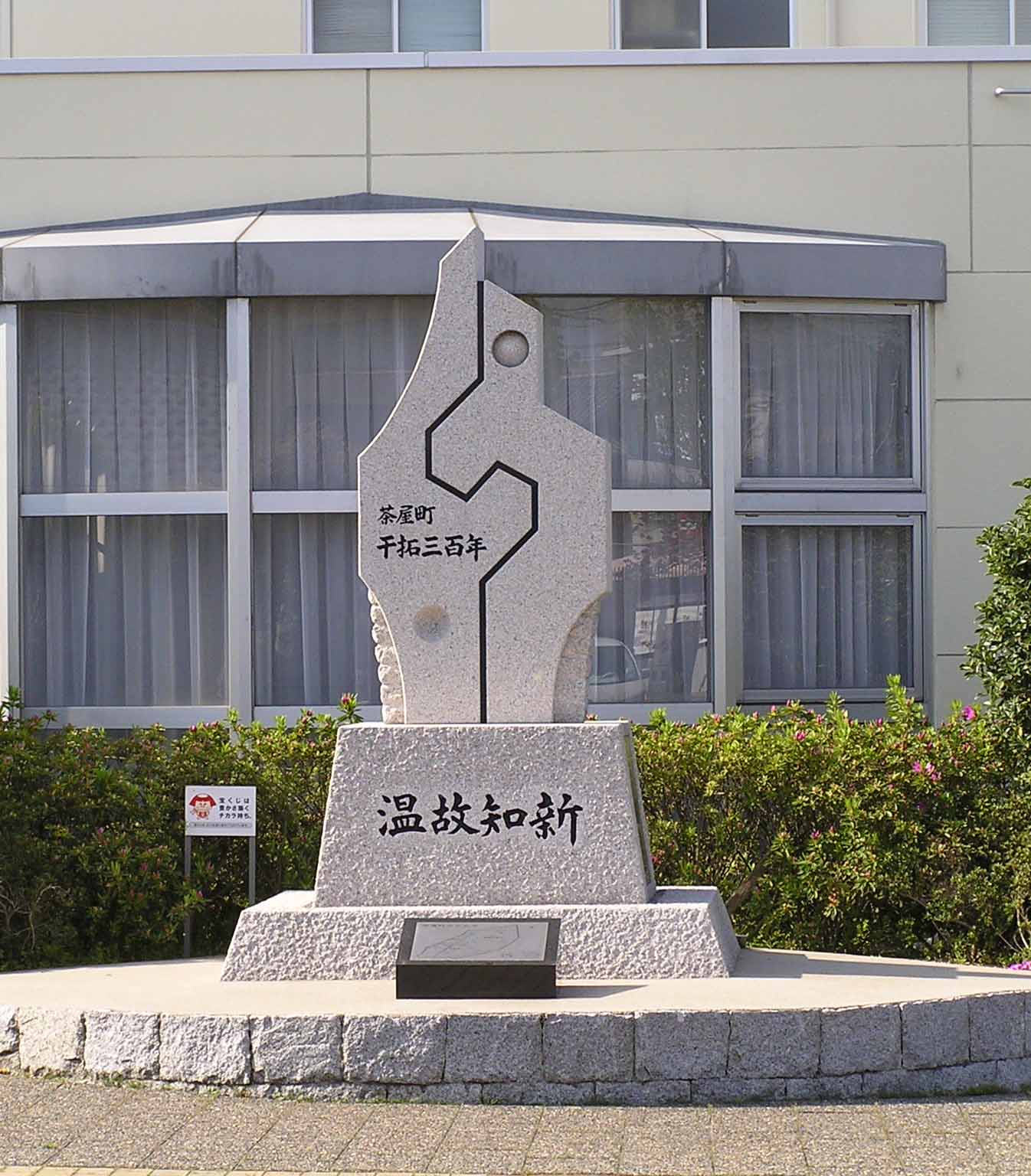 Monument of ..land reclamation.. 300 year of Chayamachi